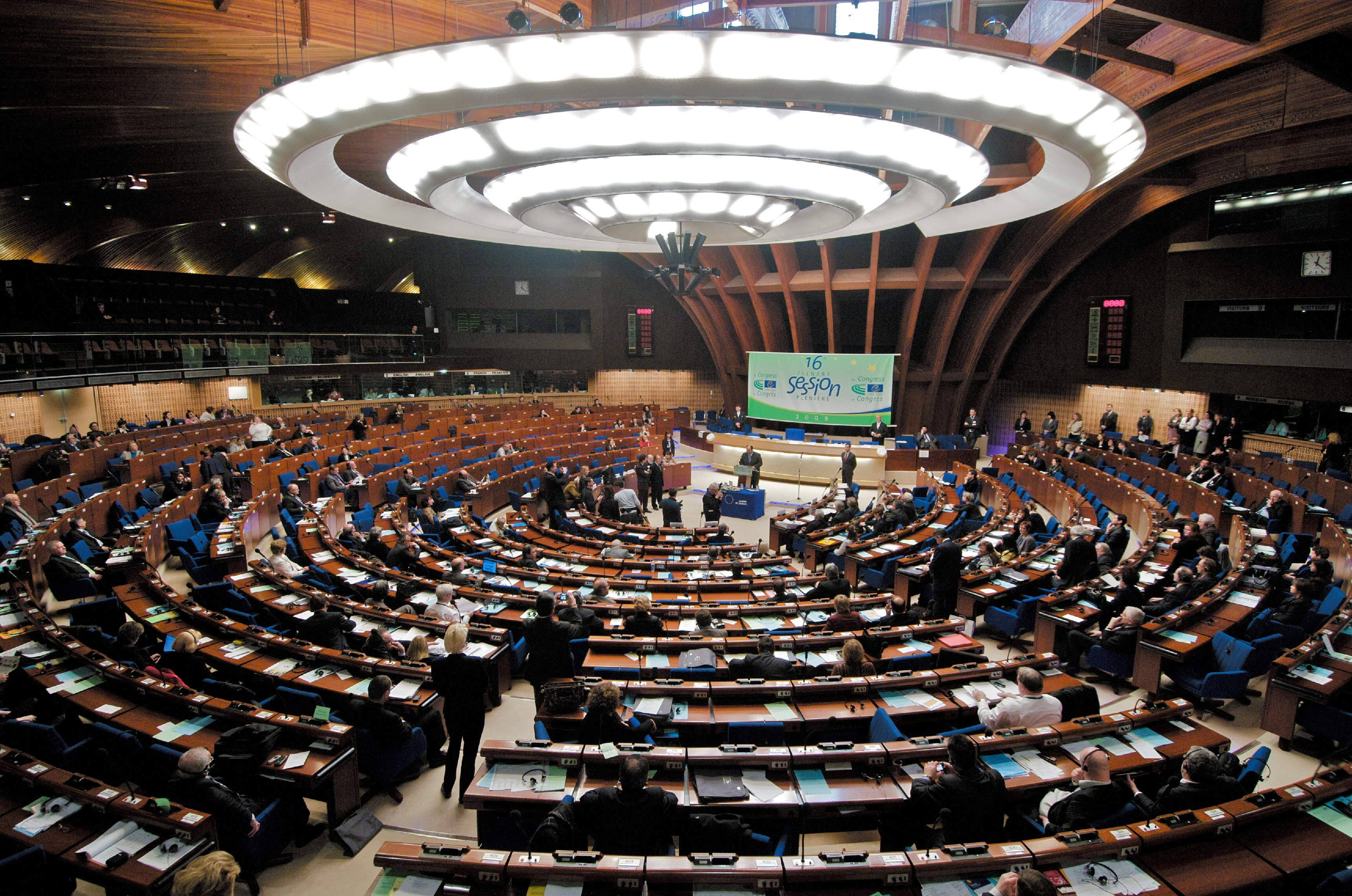 Plenary chamber of the Council of Europe's Palace of Europe